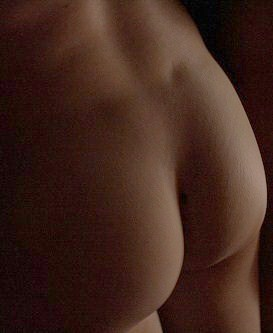 Female buttocks